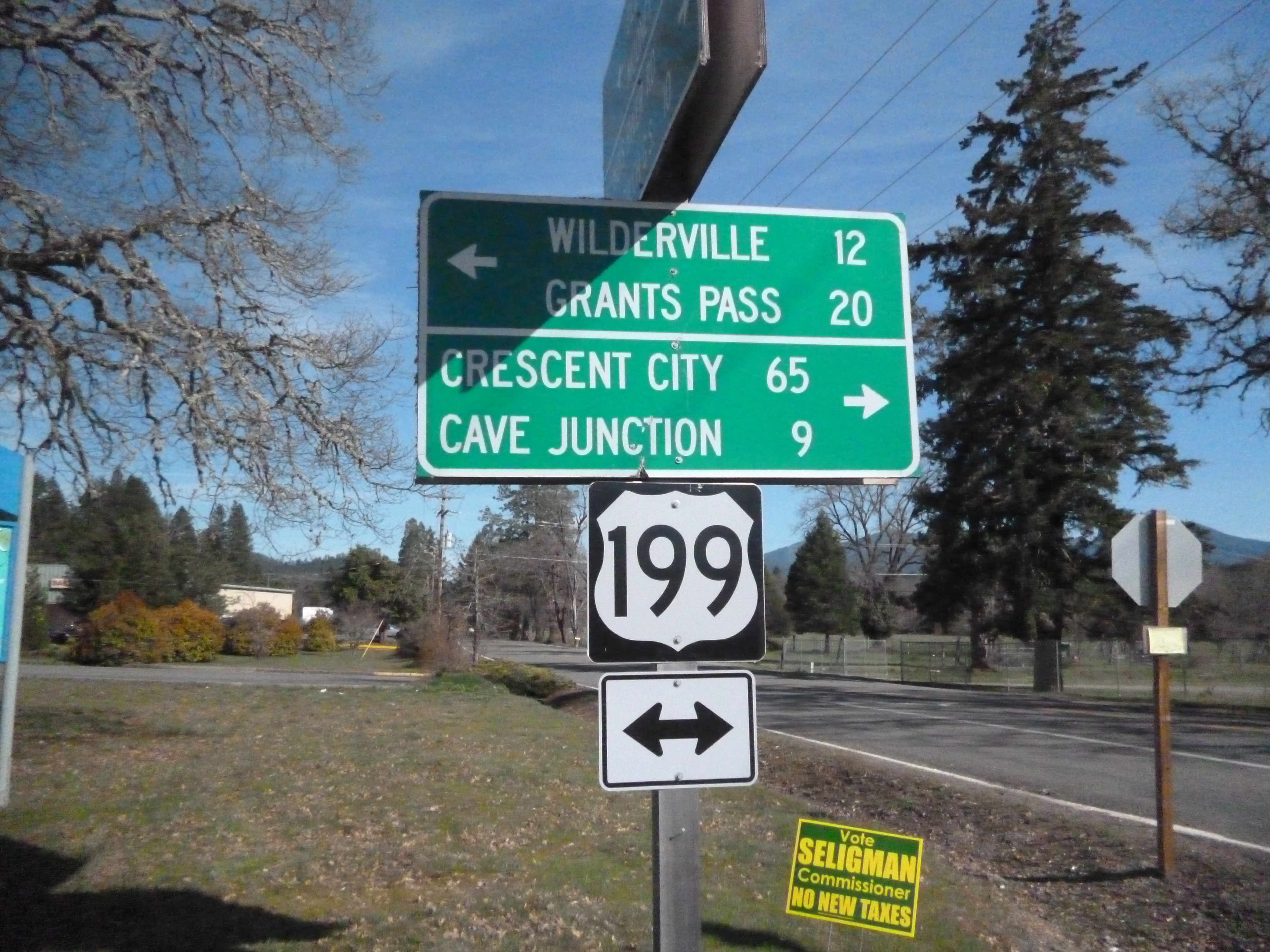 Direction sign and Oregon US shield for U.S. Route 199.